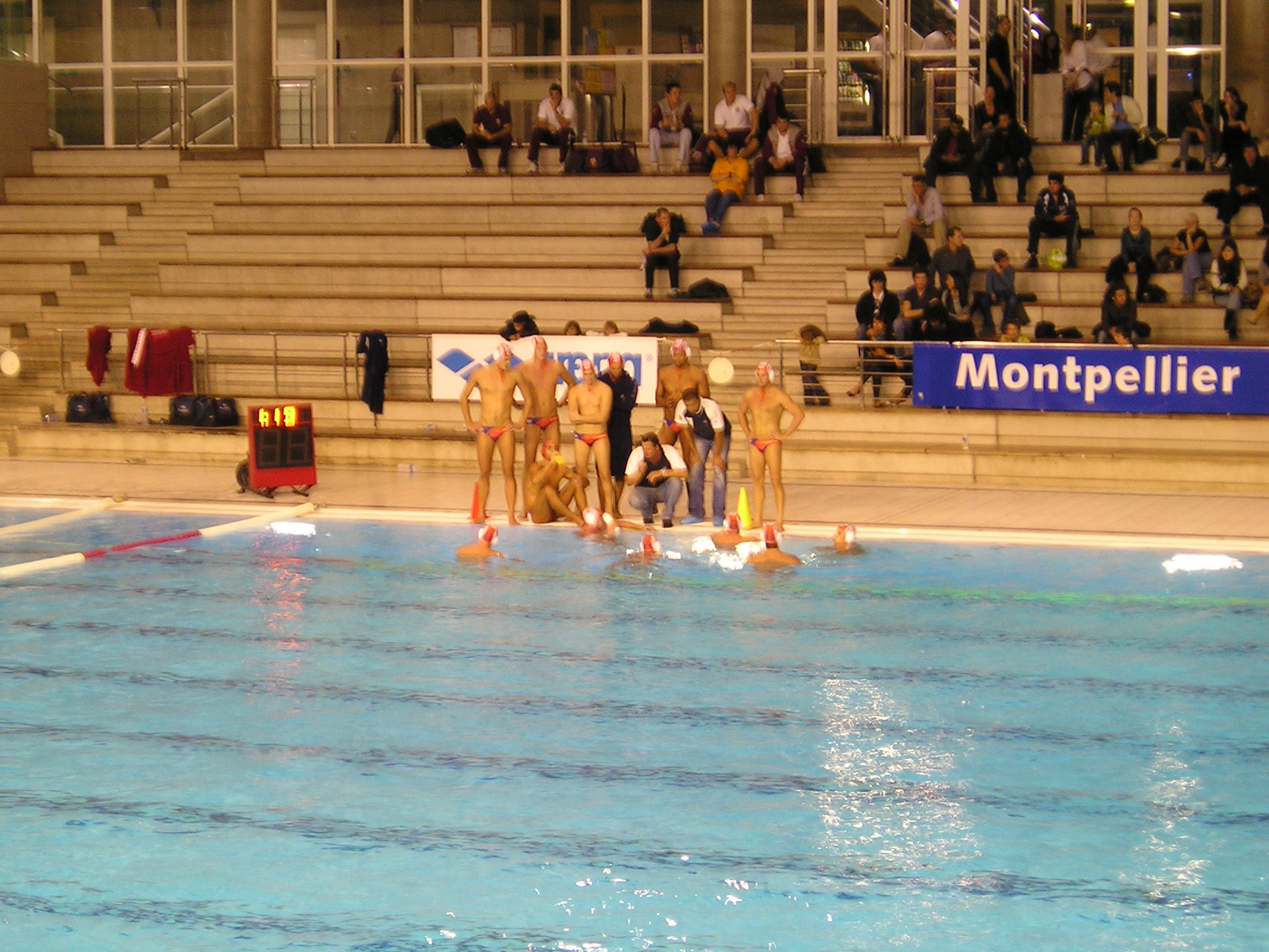 Montpellier, LEN Trophy, first round, Montpellier-Bucharest: between the first and second period, strategic talks for the Montpellier Water-Polo.